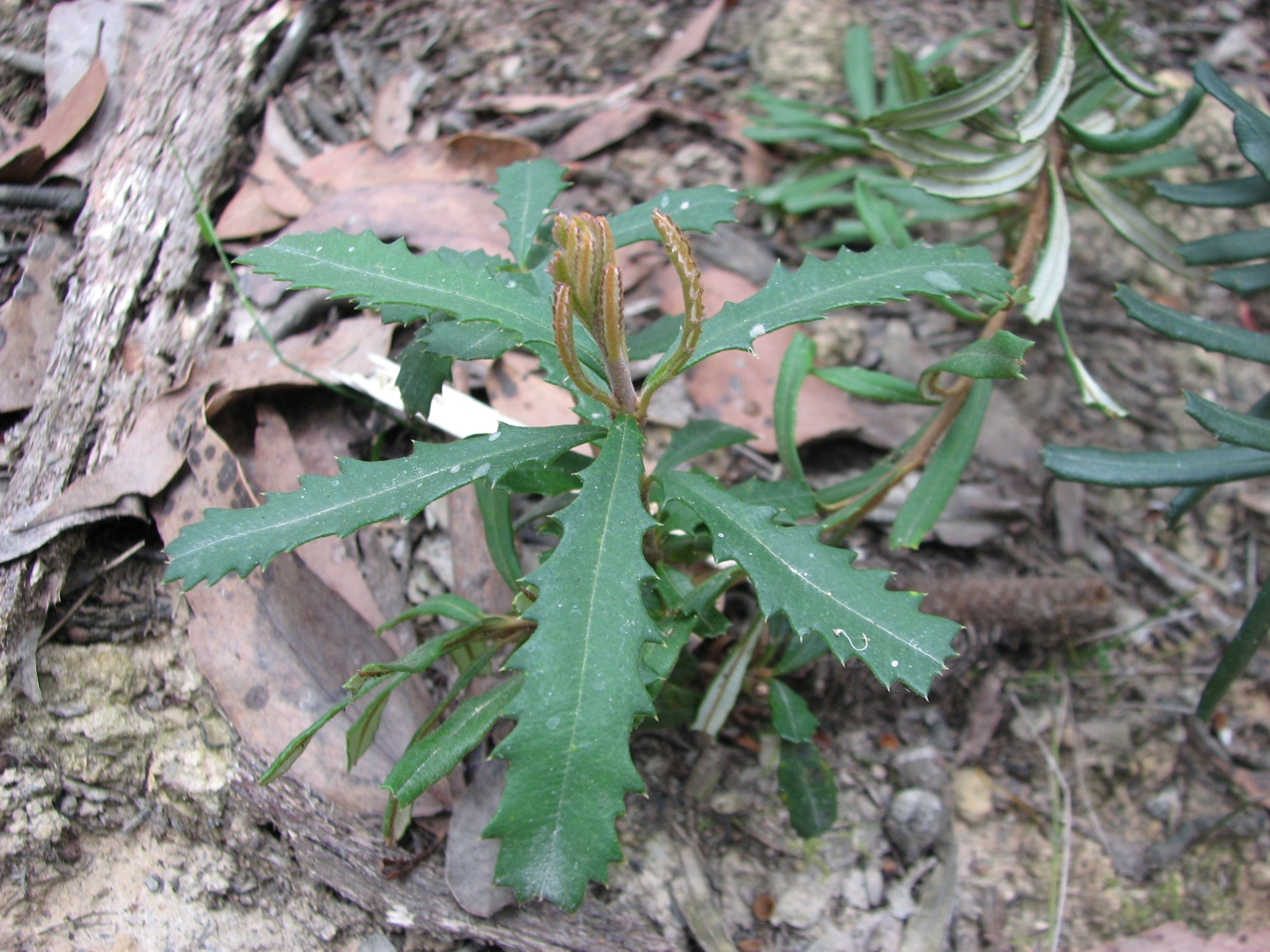 Banksia marginata seedling near mature plants, Wombat State Forest, Victoria, Australia